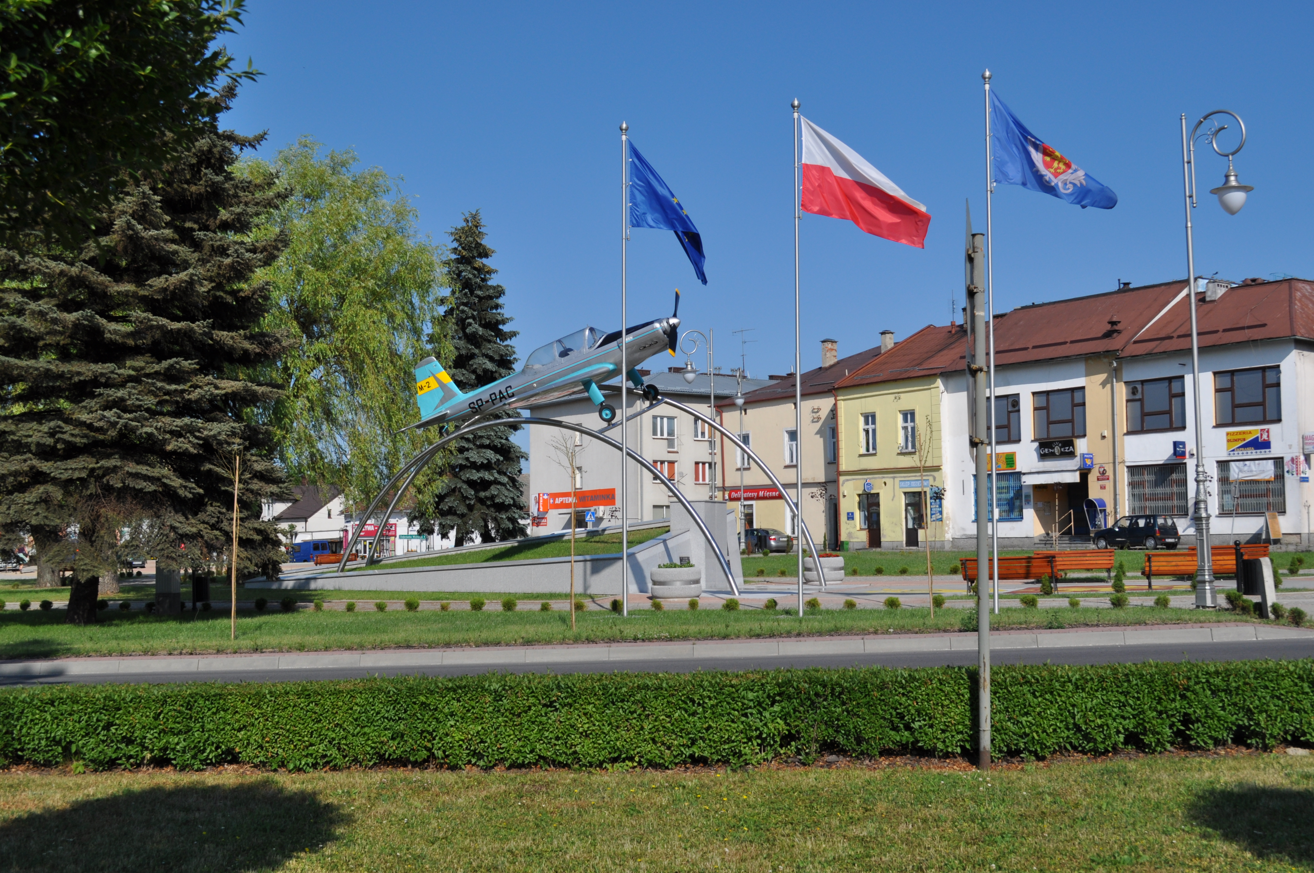 The market square in Radomyśl Wielki